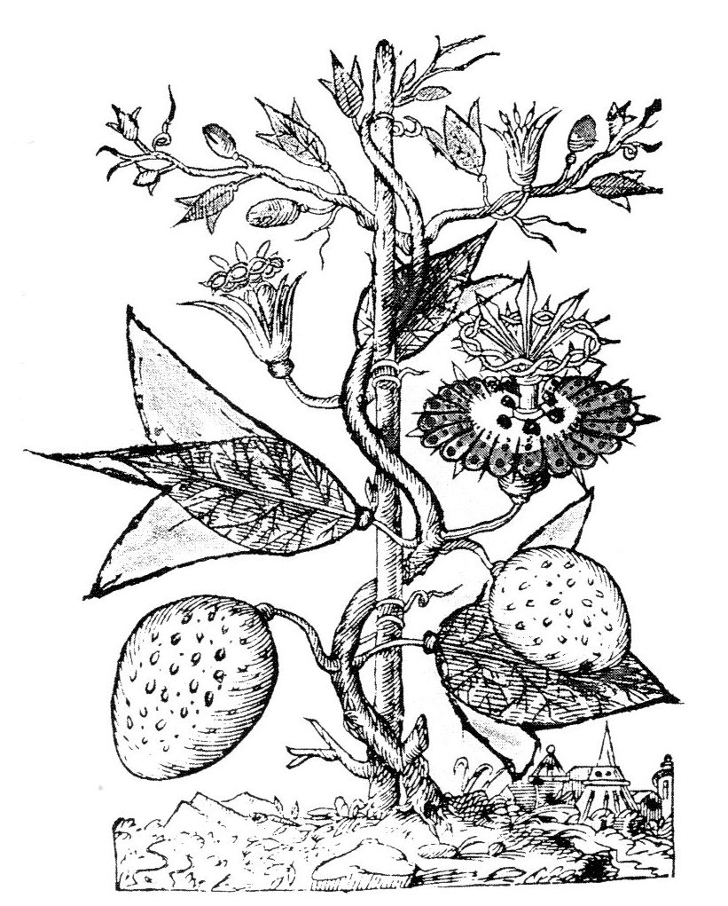 Stylised Illustration of a passion flower (assumed Passiflora incarnata)